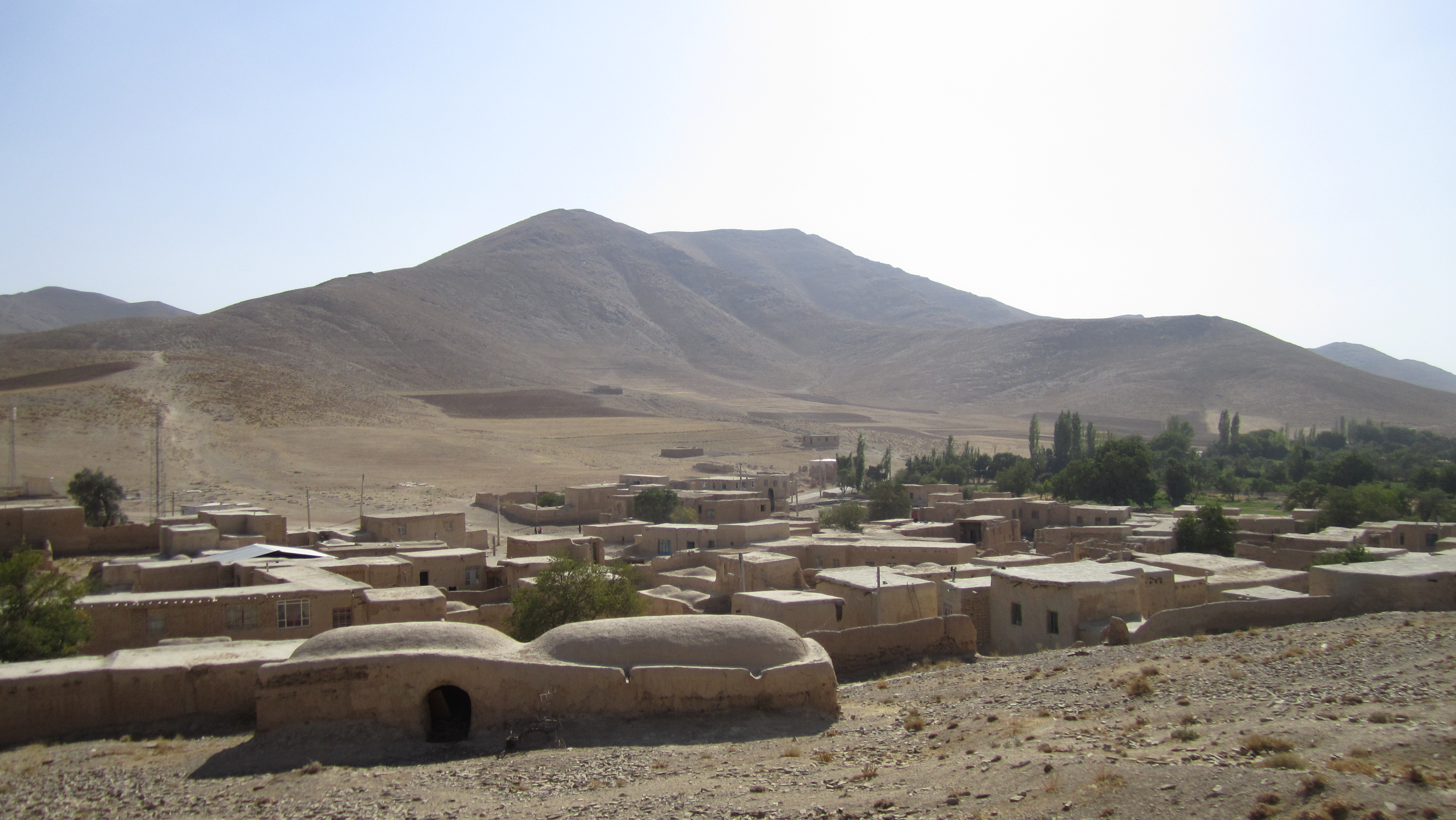 Kharpahlou Village, Markazi, Iran